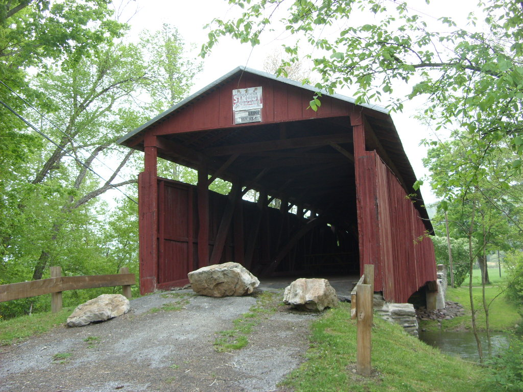 West portal of Stillwater Covered Bridge in the borough of Stillwater, Coulmbia County, Pennsylvania, USA. Built in 1849, it crosses Fishing Creek, and was listed on the National Register of Historic Places in 1979.